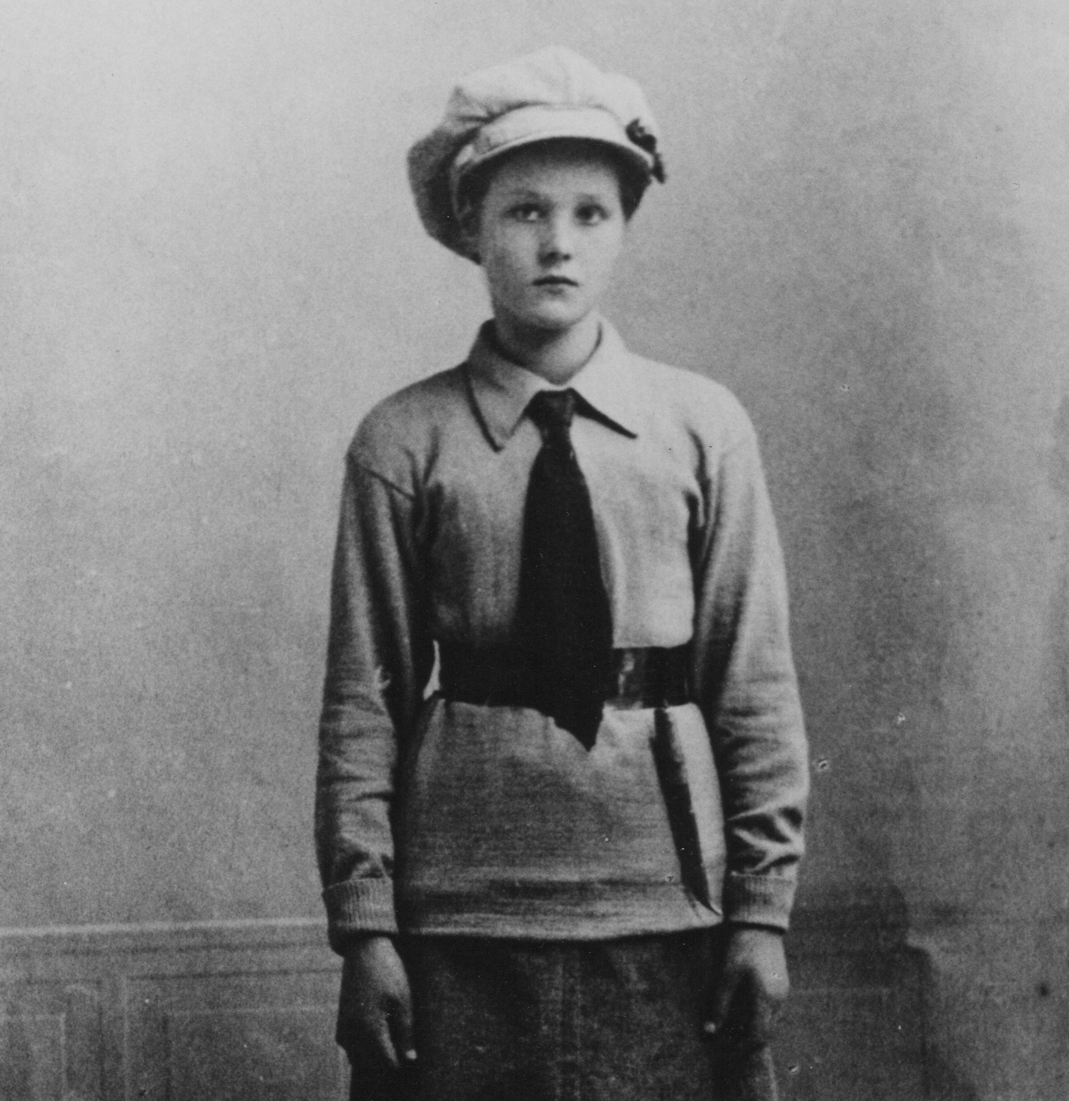 Aino Mäkinen, Female Red Guard fighter of the 1918 Finnish Civil War.